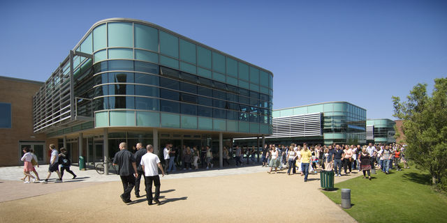 Completed in December 2007, this £14m energy-efficient building provides 7000m2 of teaching and learning space and an 860-seater lecture. It also includes the Clincial Skills and Simulation Centre, which mocks up hospital ward environments with industry standard equipment for hands-on learning.